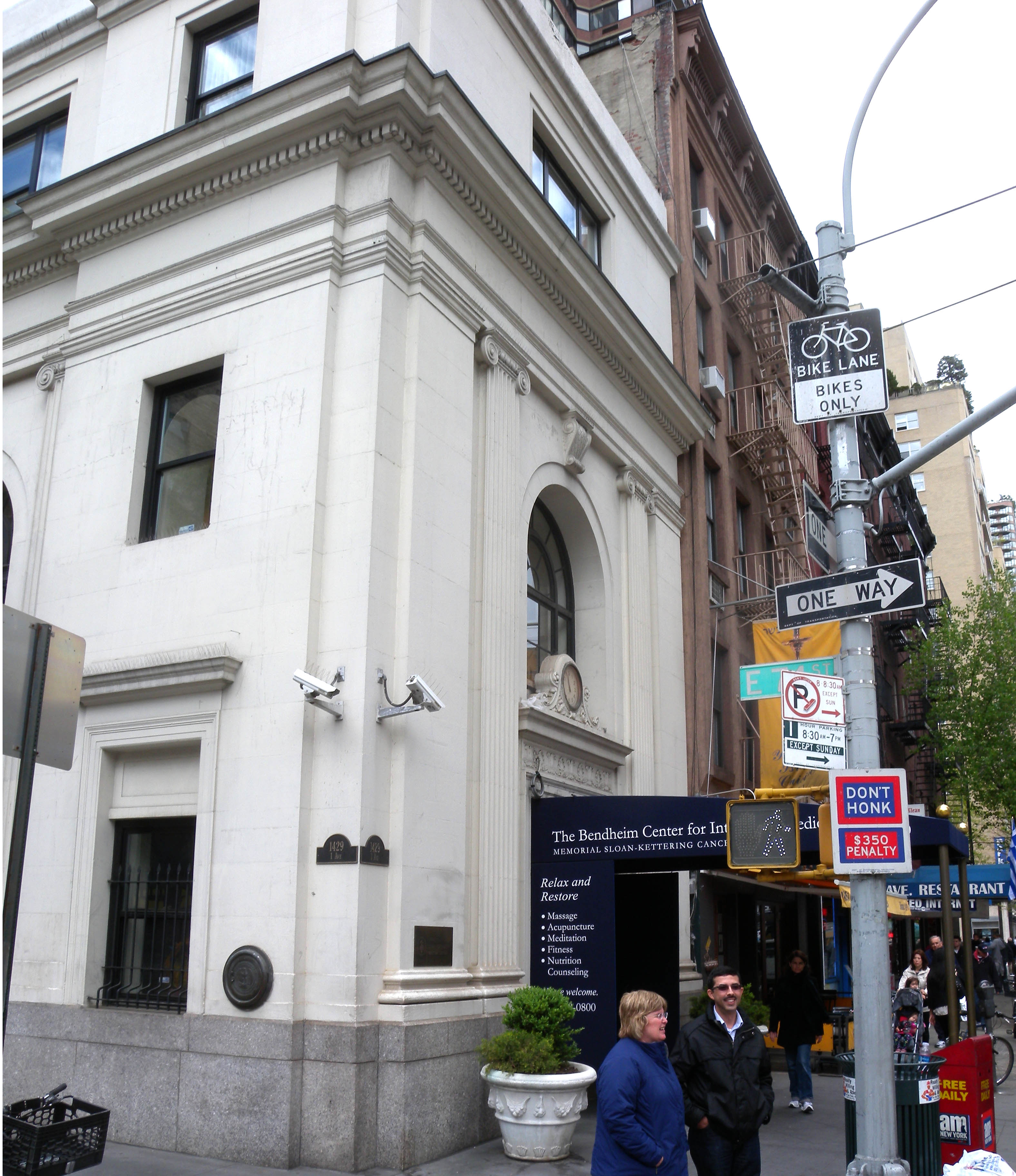 Looking north across 74th and up 1st at a former bank, now used by Memorial Sloan-Kettering.